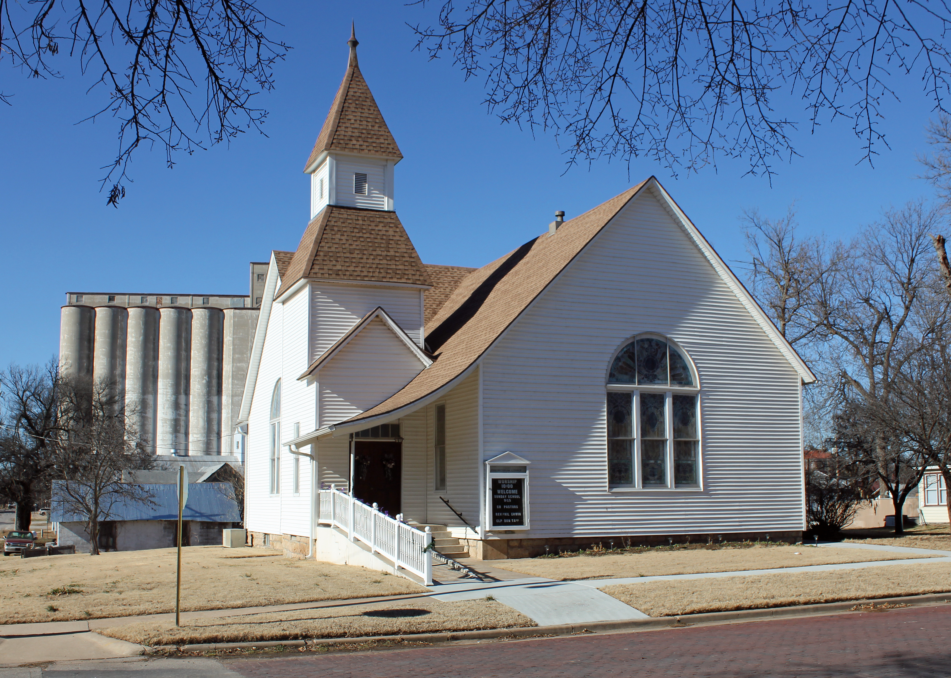 The First Presbyterian Church of Tonkawa, located at 109 South 4th Street in Tonkawa, Oklahoma. The property is listed on the National Register of Historic Places.